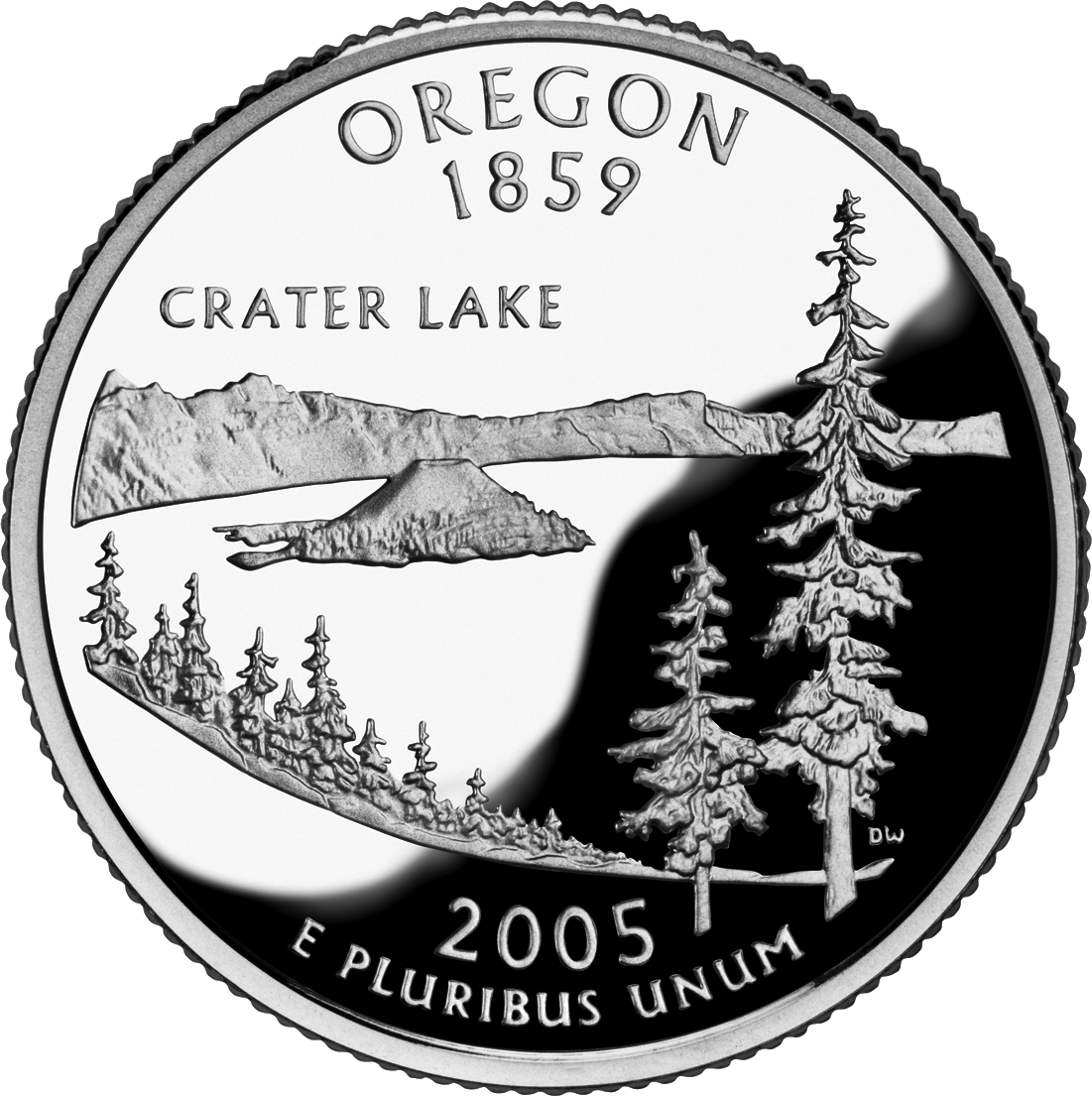 Removed background, cropped, and converted to PNG with Macromedia Fireworks. This image depicts a unit of currency issued by the United States of America. If Fraudulent use of this image is punishable under applicable counterfeiting laws. As listed by the United States Secret Service at money illustrations, the Counterfeit Detection Act of 1992, Public Law 102-550, in Section 411 of Title 31 of the Code of Federal Regulations (31 CFR 411), permits color illustrations of U.S. currency provided:1. The illustration is of a size less than three-fourths or more than one and one-half, in linear dimension, of each part of the item illustrated;2. The illustration is one-sided; and3. All negatives, plates, positives, digitized storage medium, graphic files, magnetic medium, optical storage devices, and any other thing used in the making of the illustration that contain an image of the illustration or any part thereof are destroyed and/or deleted or erased after their final use. Certain coins contain copyrights licensed to the U.S. Mint and owned by third parties or assigned to and owned by the U.S. Mint [1]. For the United States Mint circulating coin design use policy, see [2]; for the policy on the 50 State Quarters, see [3]. Also: COM:ART #Photograph of an old coin found on the Internet